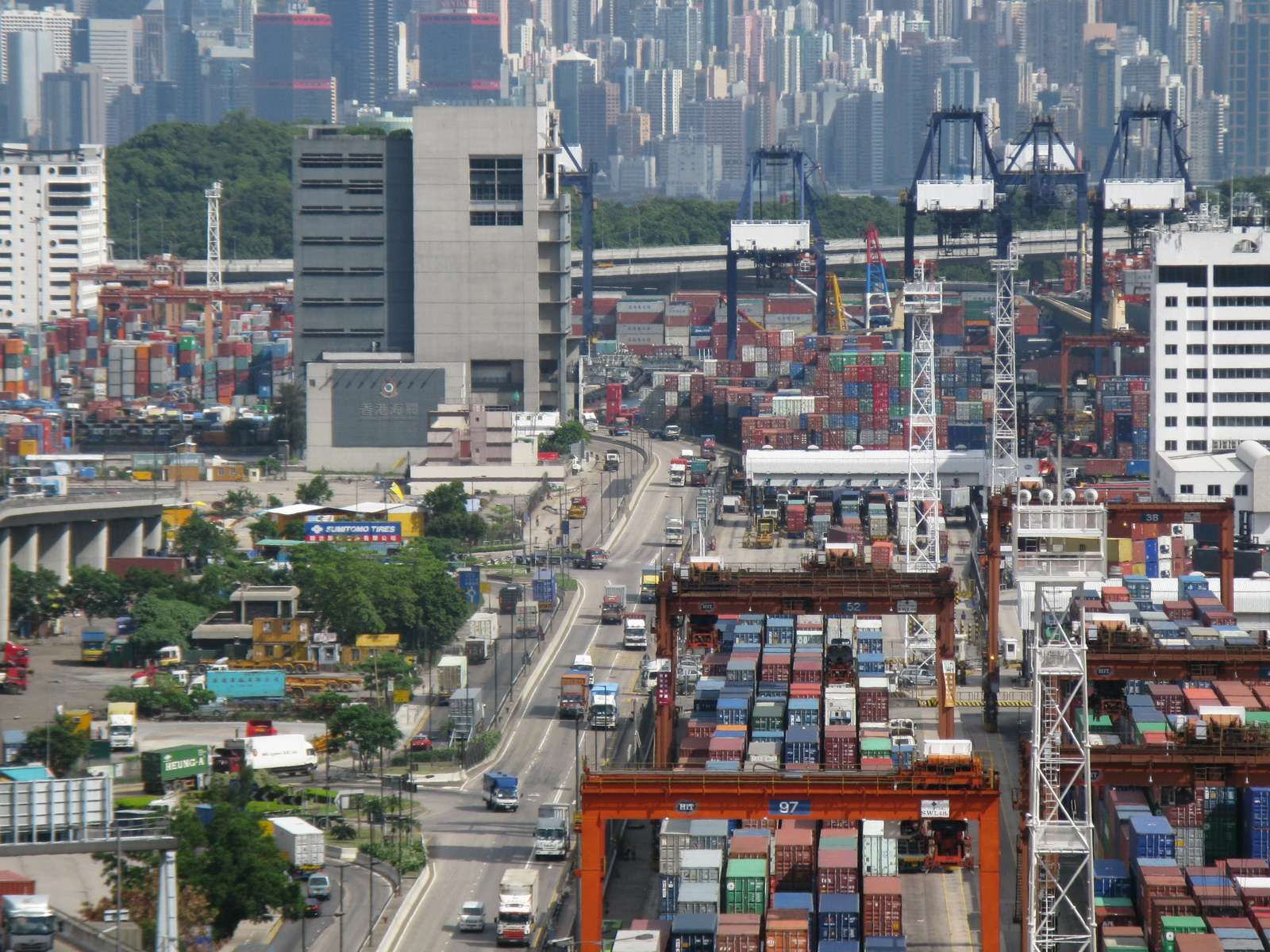 Container Port Road South, Kwai Tsing Container Terminals